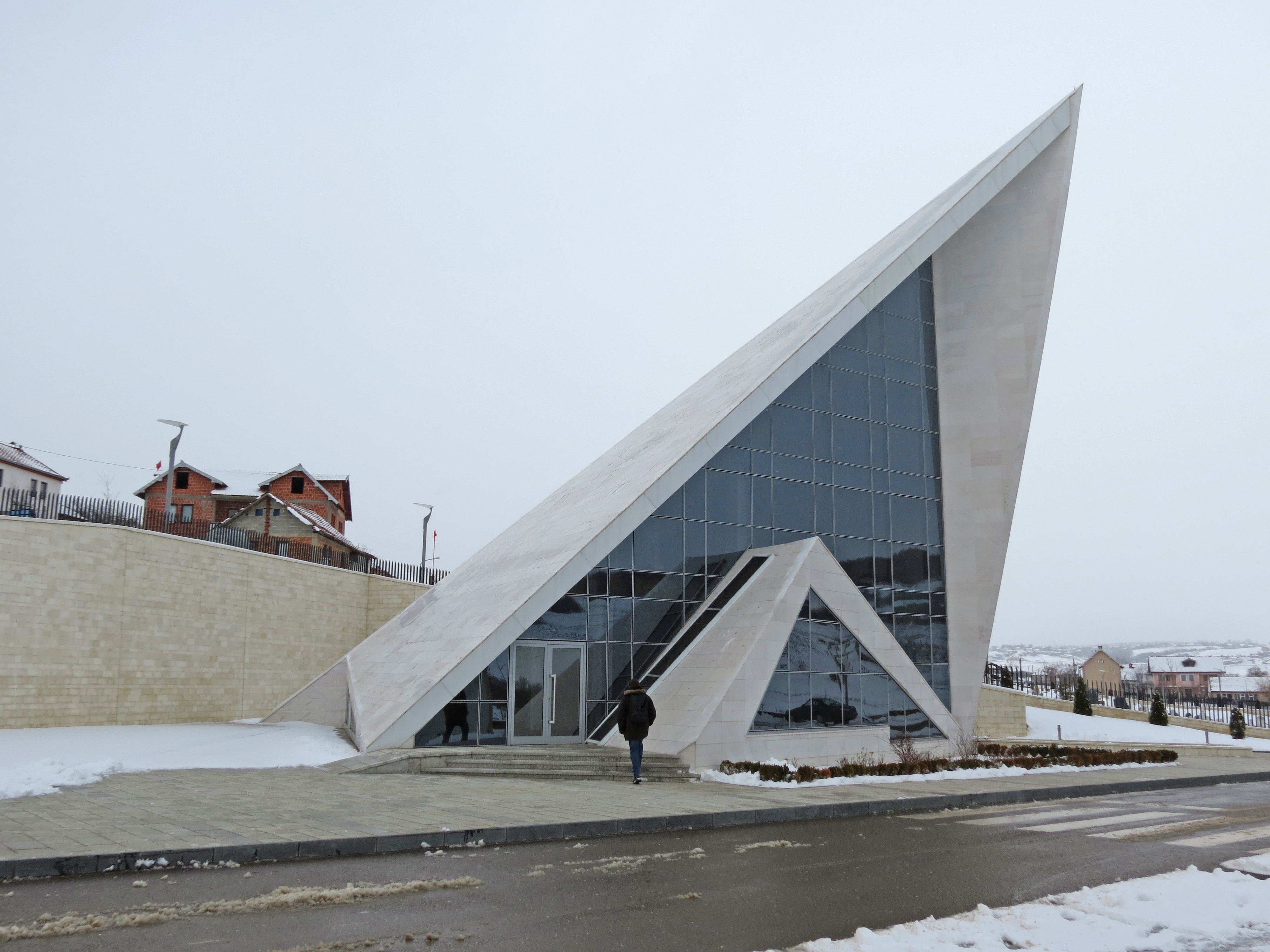 Adem Jashari Memorial Complex in Prekaz, Kosovo, with the house in which Adem Jashari and more than 60 other people were murdered in the Attack on Prekaz (1998).